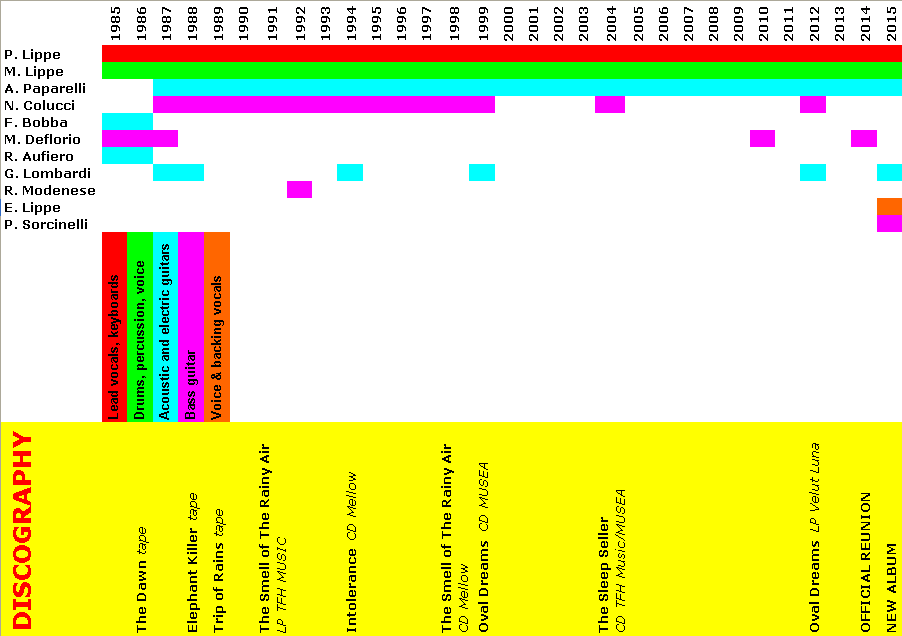 Human Line-up, Discography of Twenty Four Hours